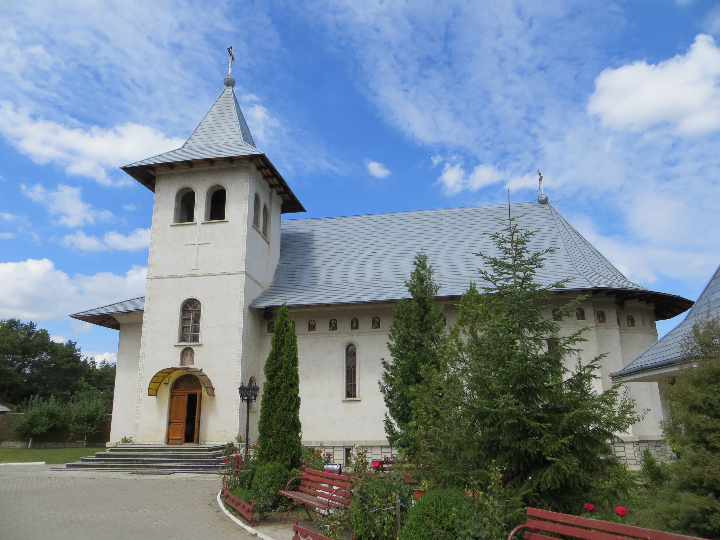 Church of the Holy Friday in Suceava.